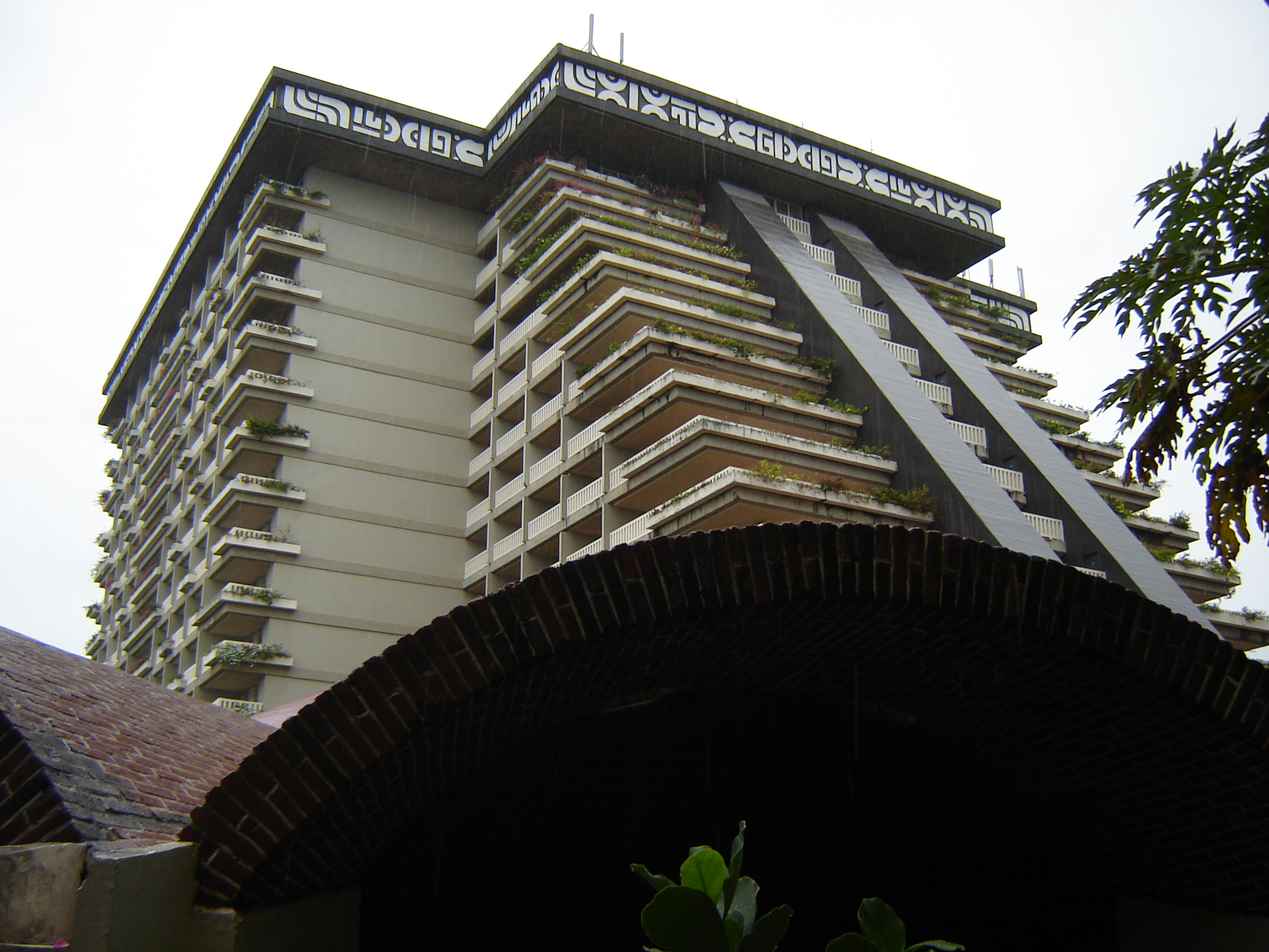 The Piramid (Fairmont Princess, Acapulco)